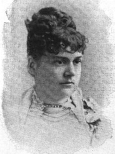 Portrait of a white woman with dark curly hair in an updo. She is wearing a light-colored garment, with beads at her throat.